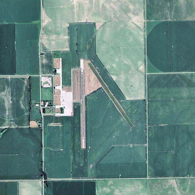 USGS digital orthophoto of Harvard State Airport in Nebraska